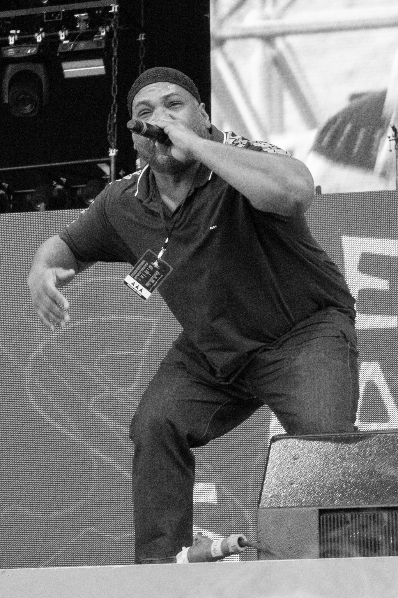 Vincent Mason aka Maseo of De La Soul at Gods of Rap 2019 in Berlin, Germany - Parkbühne Wuhlheide